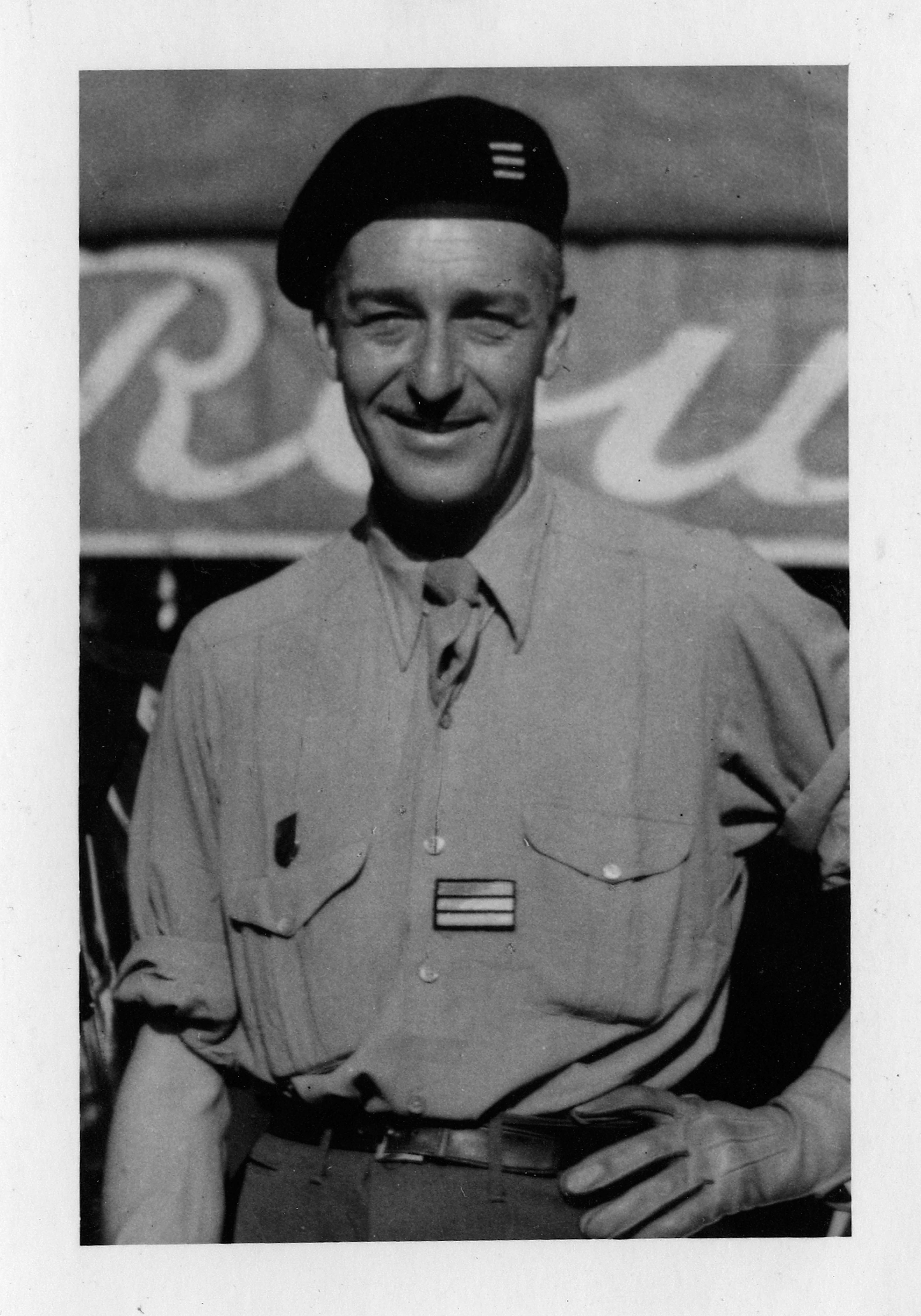 Captain Teddy Rasson at the Liberation of Paris, August 25, 1944